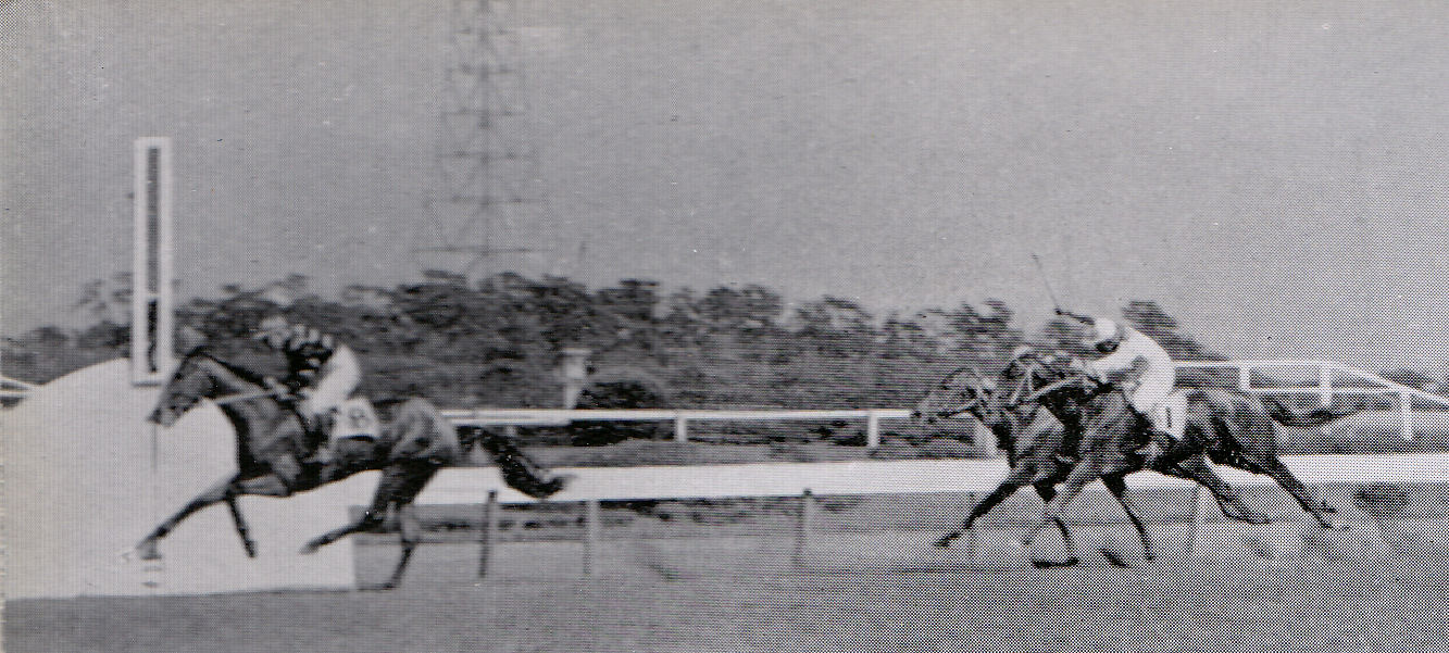 tokinominoru satsuki sho